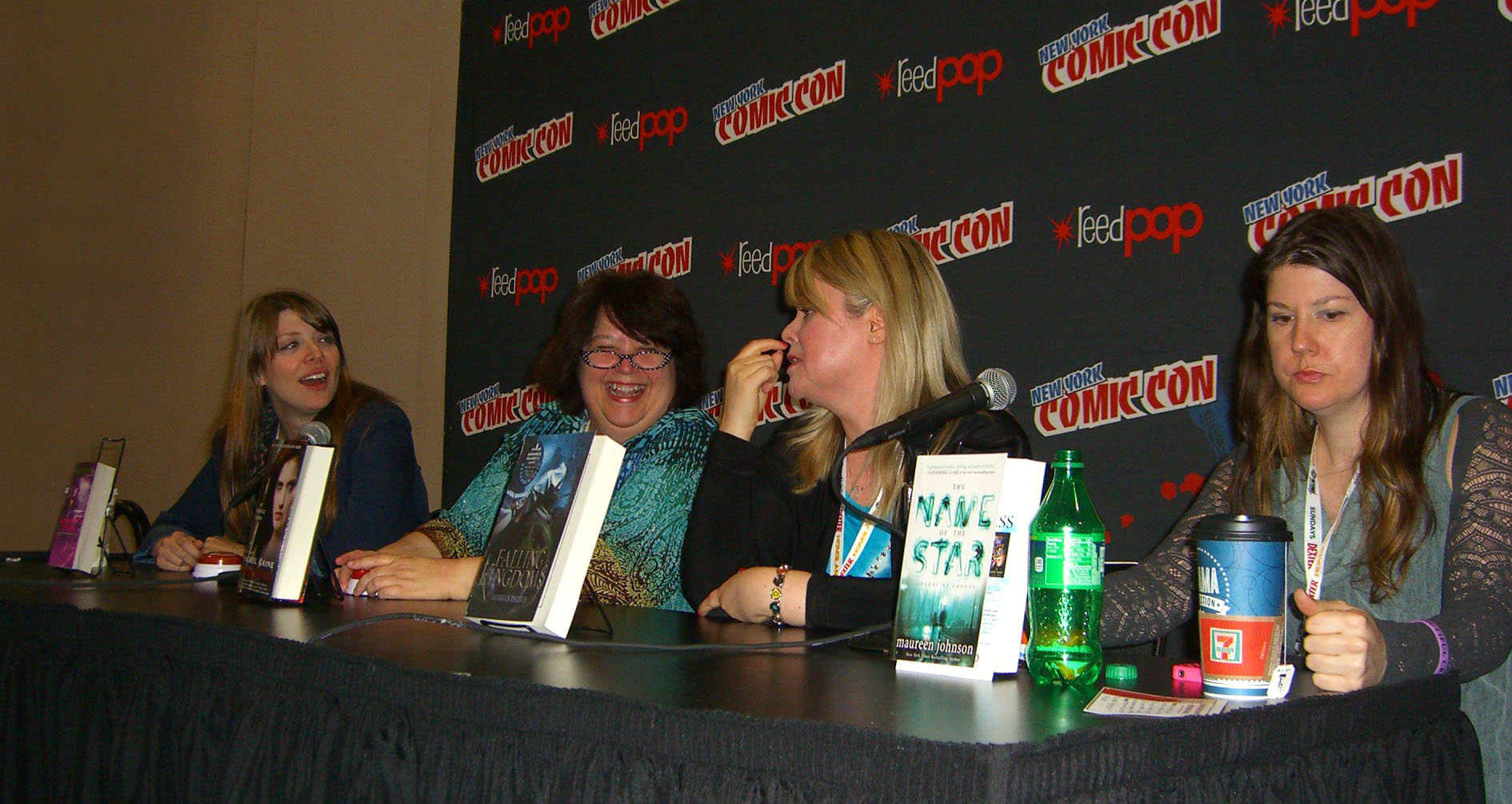 The "Justice is Served" discussion panel on Day 2 of the 2012 New York Comic Con, Friday October 12, 2012 at the Jacob K. Javits Convention Center in Manhattan. From left to right are novelists Amber Benson, Rachel Caine, Morgan Rhodes and Maureen Johnson. This photo was created by Luigi Novi. It is not in the public domain, and use of this file outside of the licensing terms is a copyright violation.